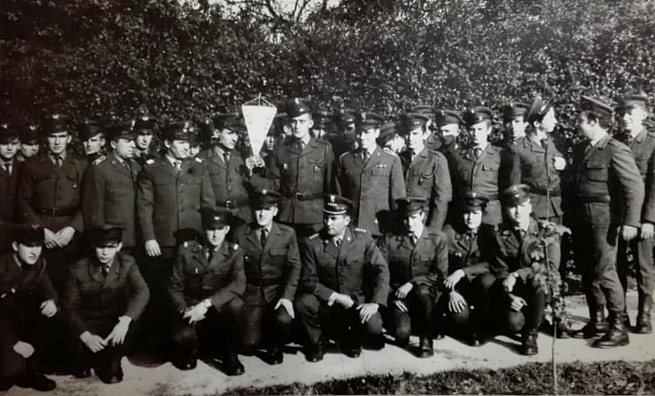 Border Protection Forces in Ustronie Morskie